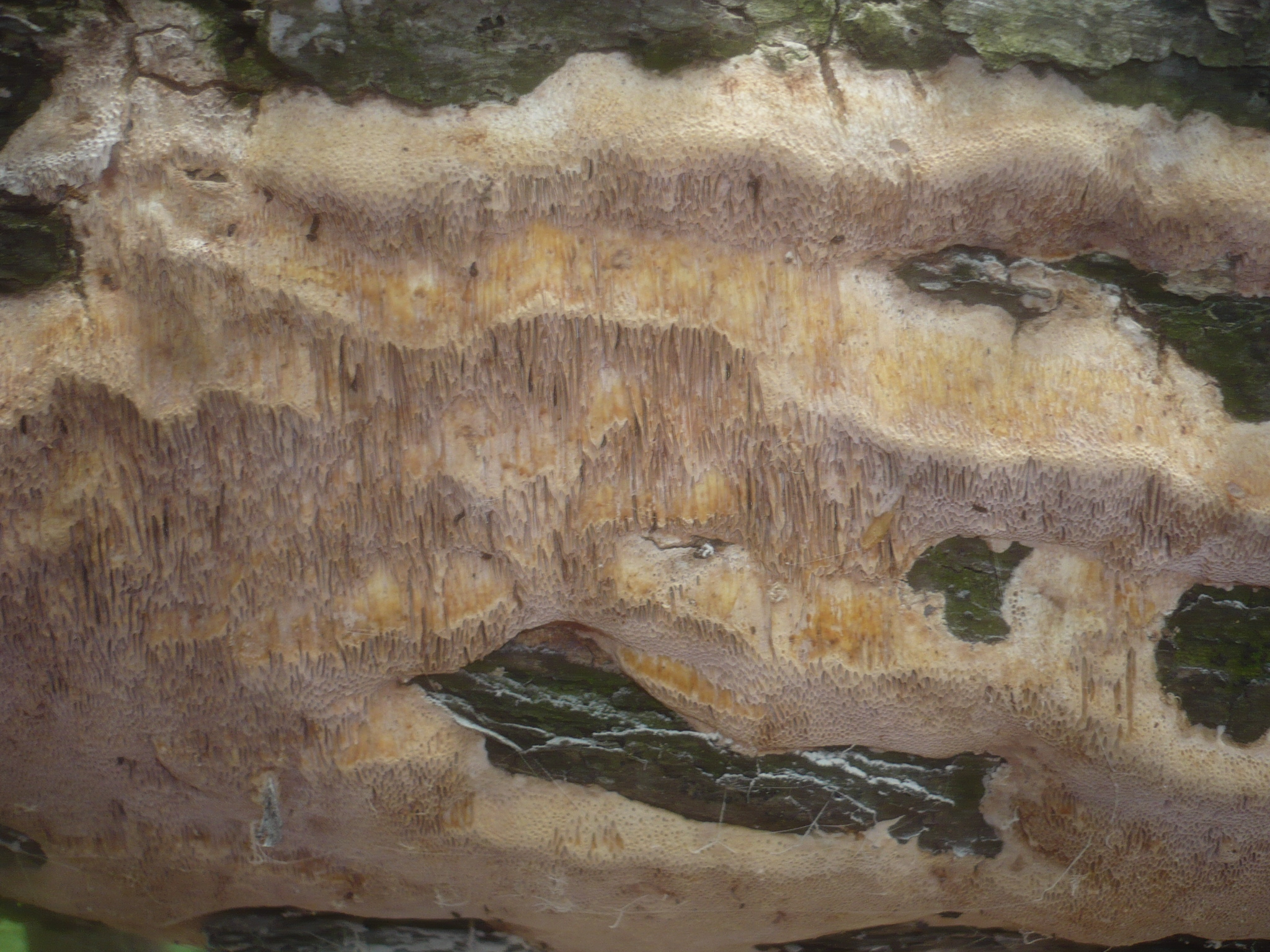 A fruit body of the fungus Pachykytospora tuberculosa; photographed in Mitterberg, Kaltenleutgeben, Bezirk Mödling, Lower Austria, Austria.